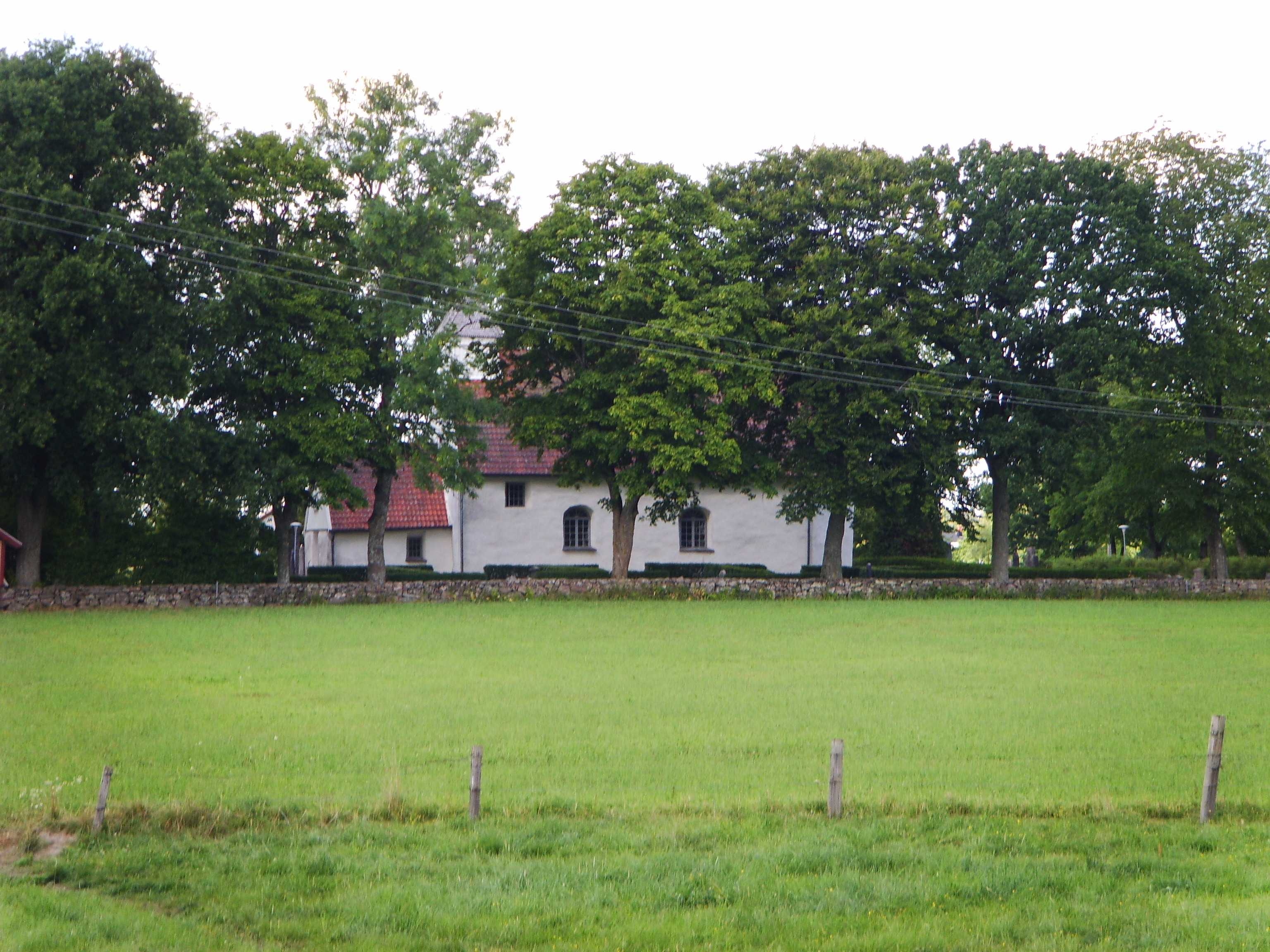 The church in Fölene, Herrljunga.